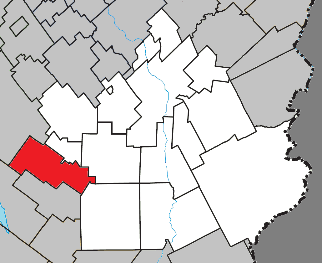 Location of Saint-Évariste-de-Forsyth, Quebec within Beauce-Sartigan Regional County Municipality.